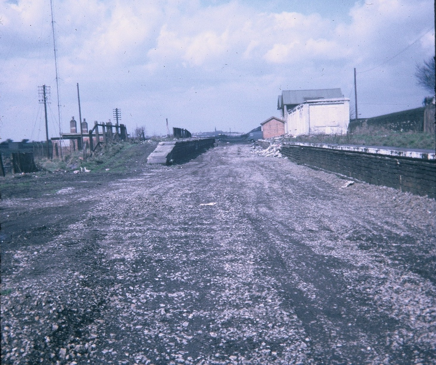 Drighlington & Adwalton StationSituated at the South end of Moorside Road and Station Road, this station, which closed on the 1st January, 1962, was on the railway line between Bradford (Exchange) and Wakefield (Westgate) Stations. This line closed to passengers in July, 1966 and to goods in October of the same year, the line being lifted shortly afterwards. This station was also the junction for the line to Batley, Dewsbury (Central), Ossett and Wakefield (Westgate) stations and closed in September, 1964. The A650 Drighlington By-Pass now runs through the site of this station.